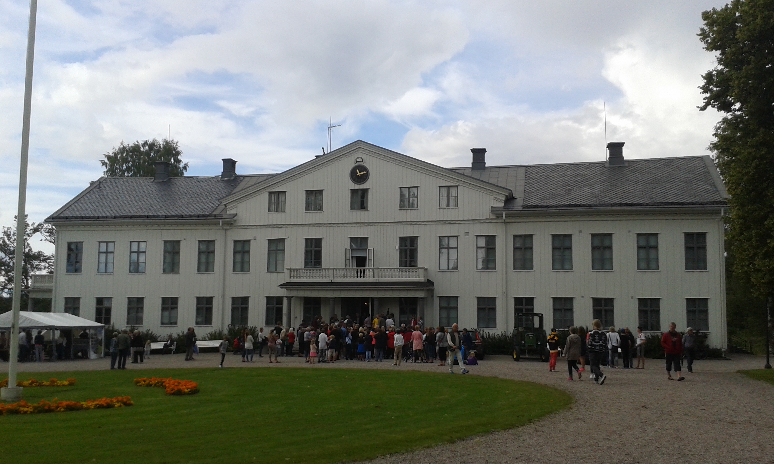 Manorhouse Uddeholm during Hagforsyran